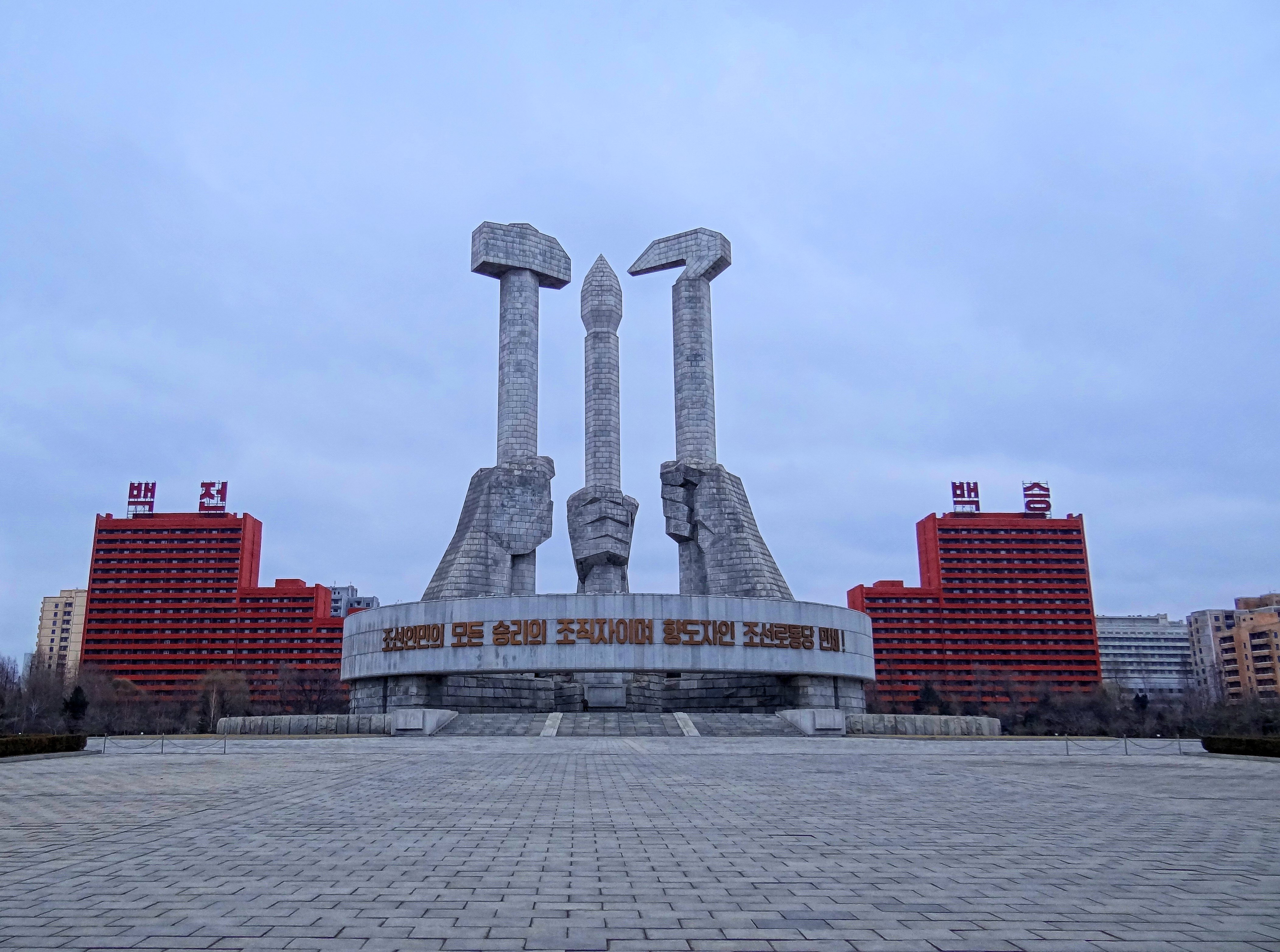 "The Monument to Party Founding" at Munsu Street, Taedonggang District in Pyongyang, North Korea. The party in question is the Workers' Party of Korea.